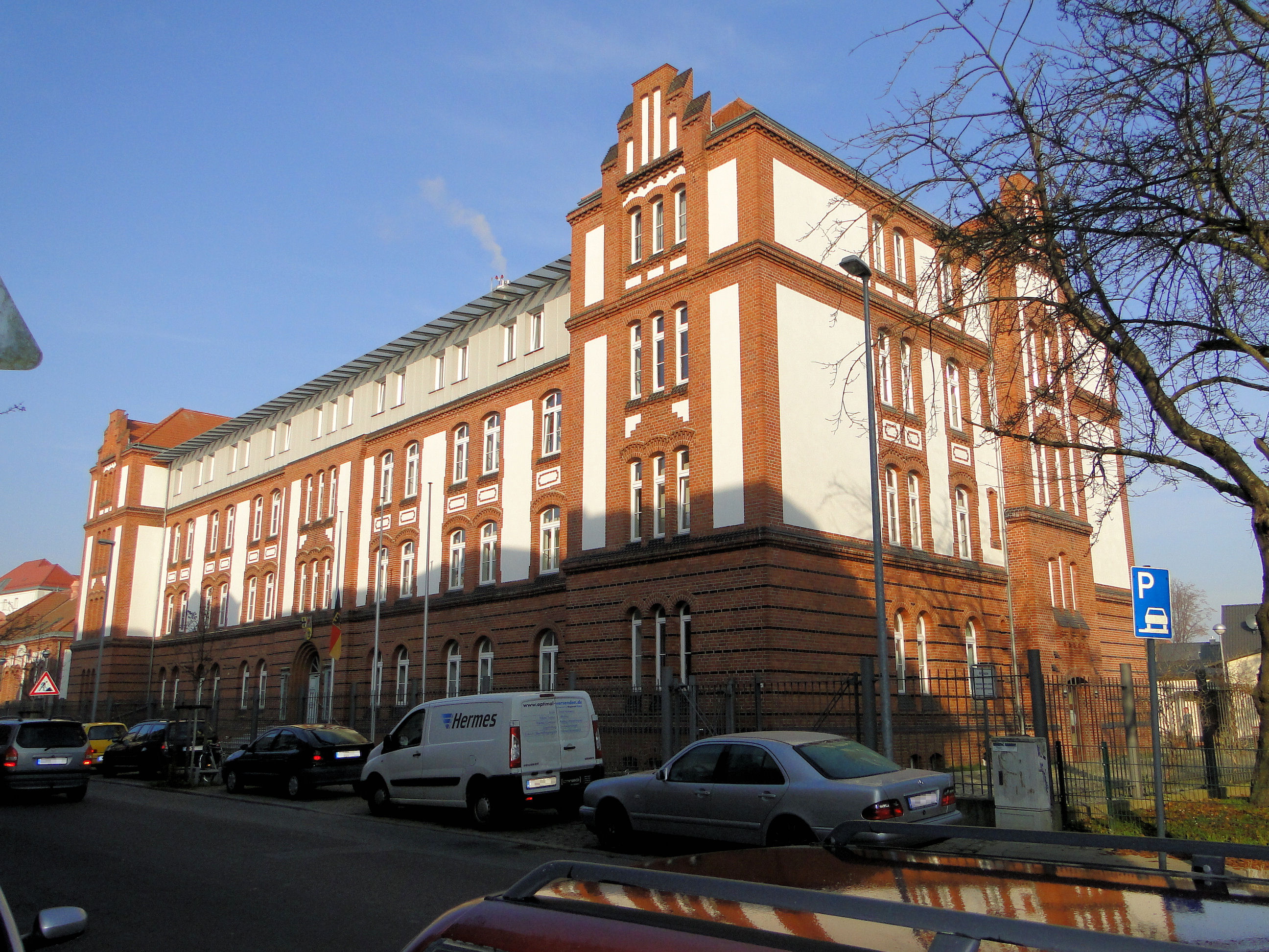 Barack building in Schwerin, Mecklenburg-Vorpommern, Germany